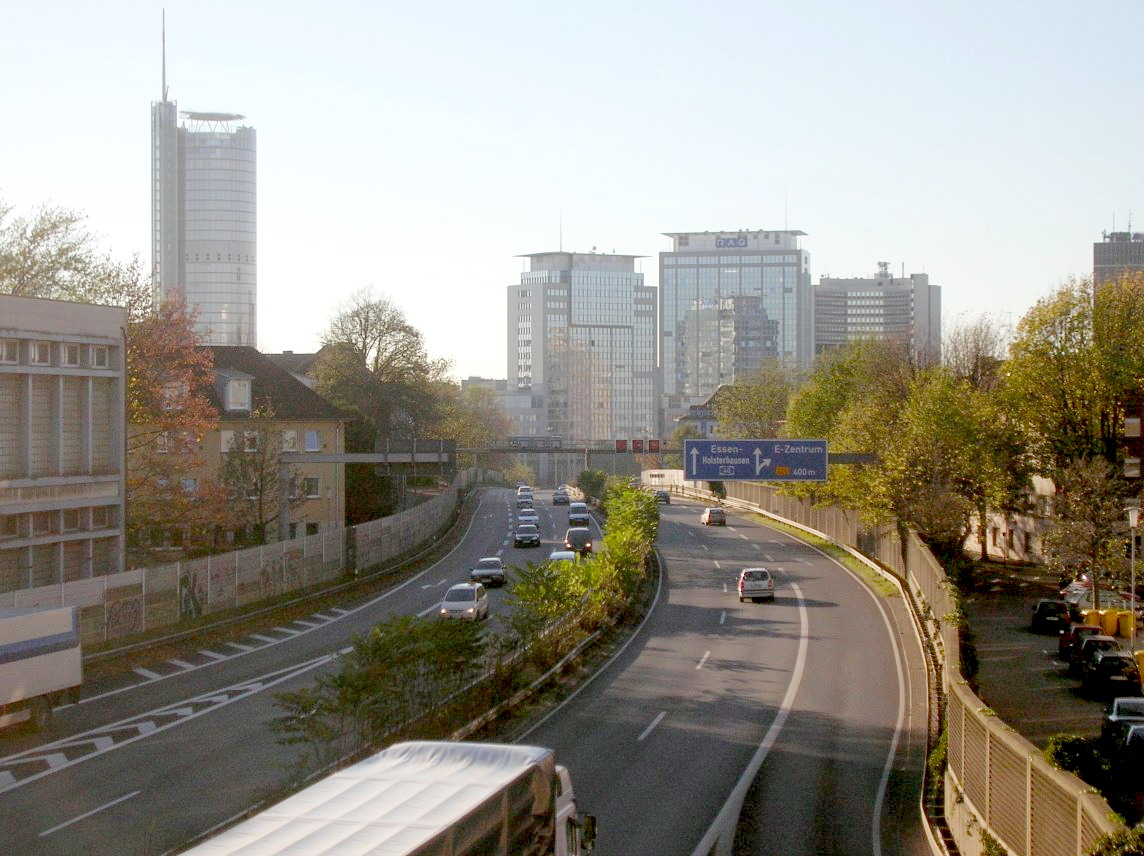 Autobahn 40 facing westwards, taken from footbridge near the Essen-Huttrop exchange.